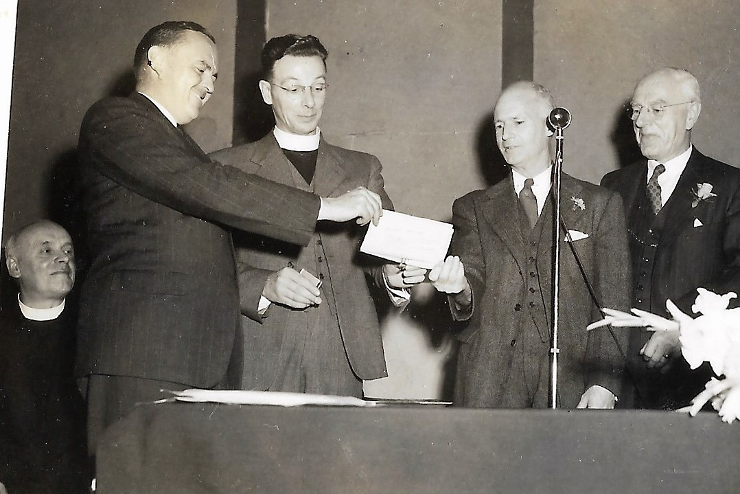 With the debt paid off, the paperwork was ceremoniously burned